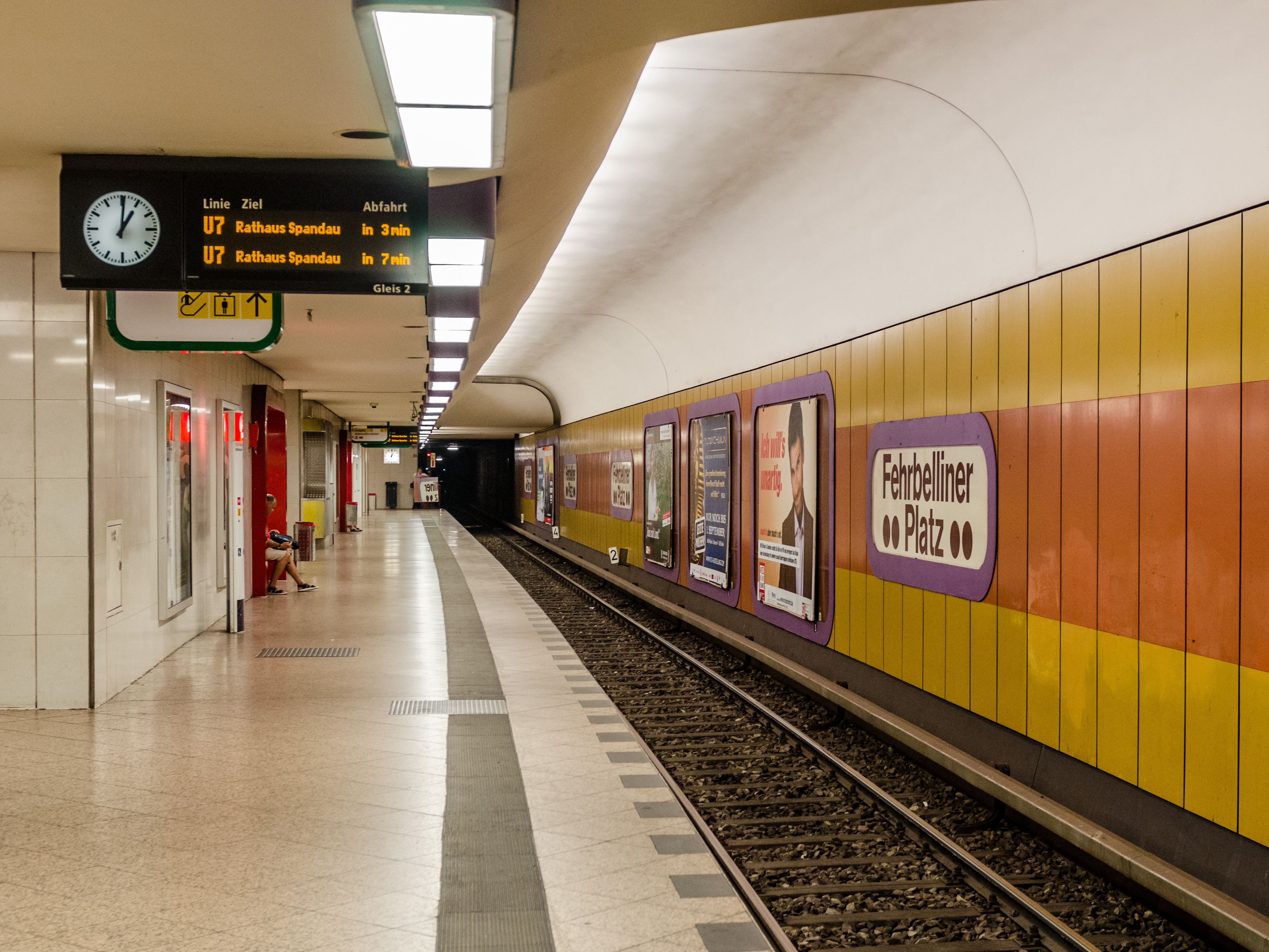 The lower (U7) level of the U-Bahn station Fehrbelliner Platz in Berlin-Wilmersdorf